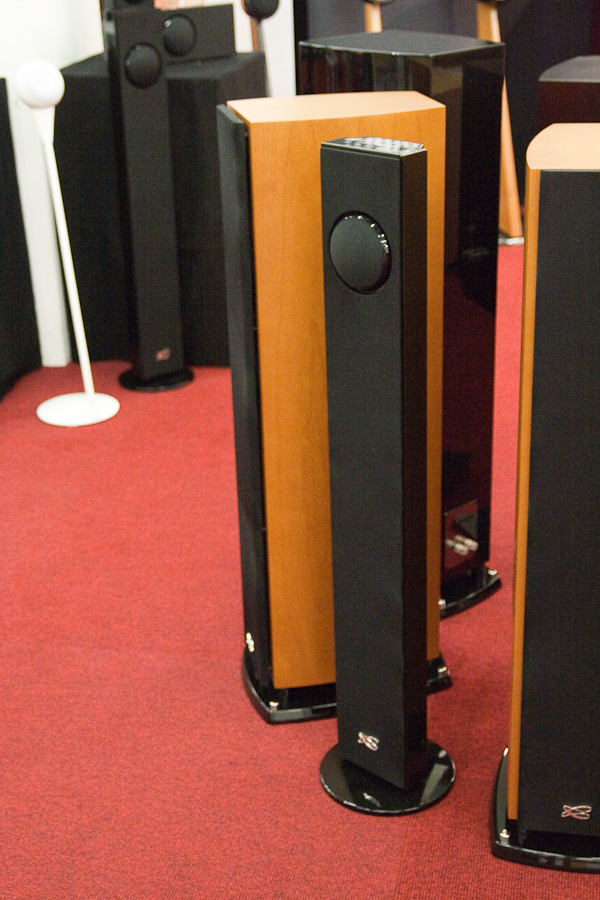 Eine Cabasse PHI // Exhibits at HighEnd 2009 trade show, Munich, April 2009